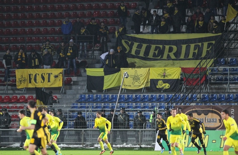 FC Sheriff fans